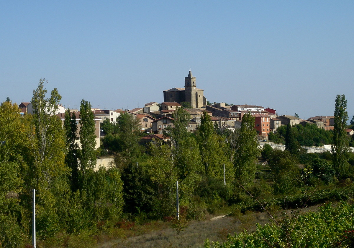 View of Navaridas (Araba, Basque Country, Spain)